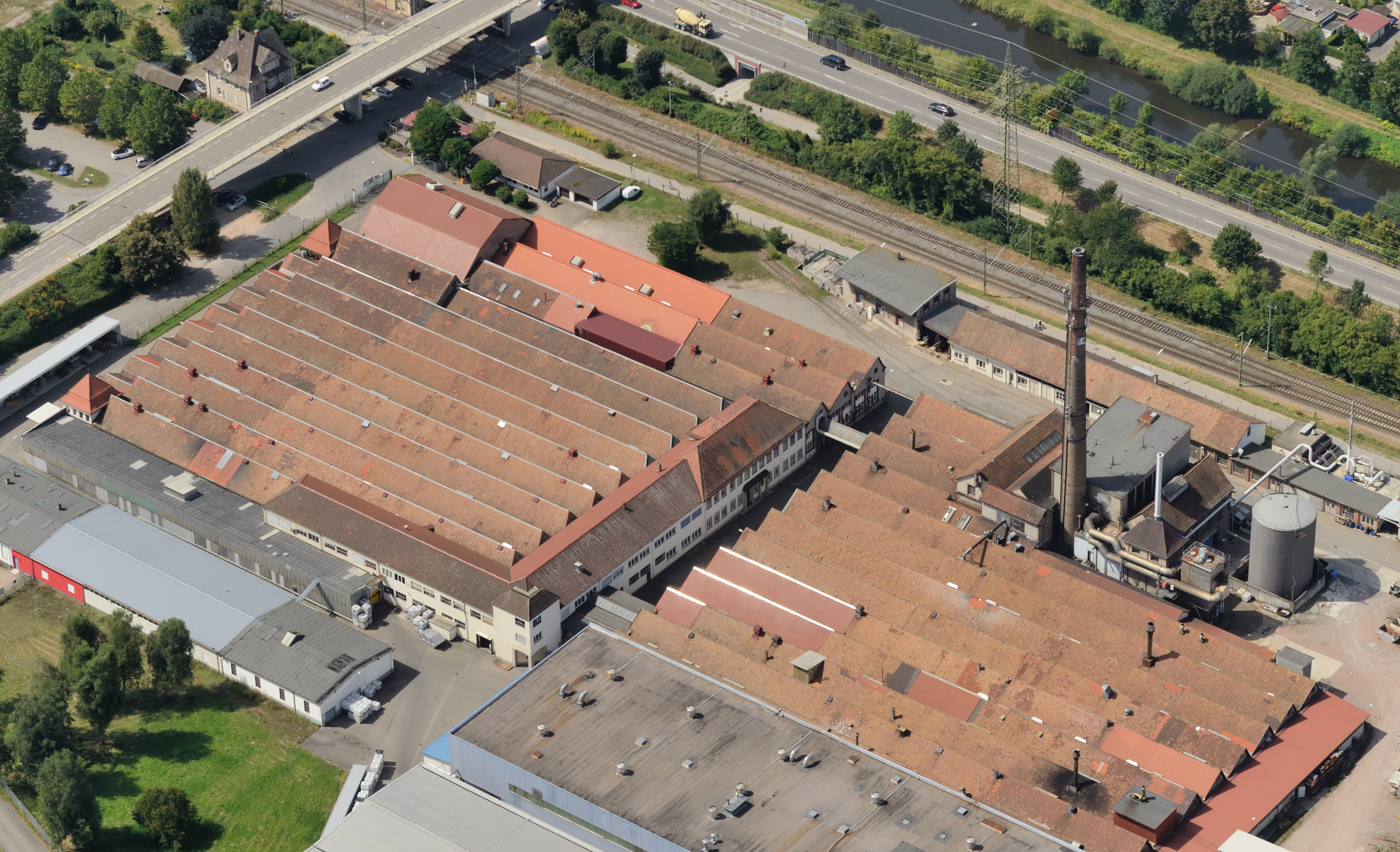 aerial view of "Lauffenmühle" (factory)